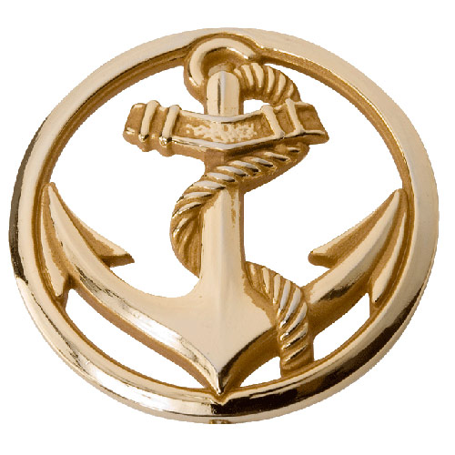 beret badge marine troops